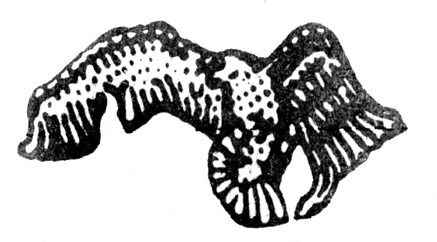 The All-Arab Homeland as eagle of Saladin (logo of the Baathist newspaper Ath-Thawra), original colour was red. The Nile valley countries form the body of the eagle, the Maghreb region and the Arabian peninsula form its wings.